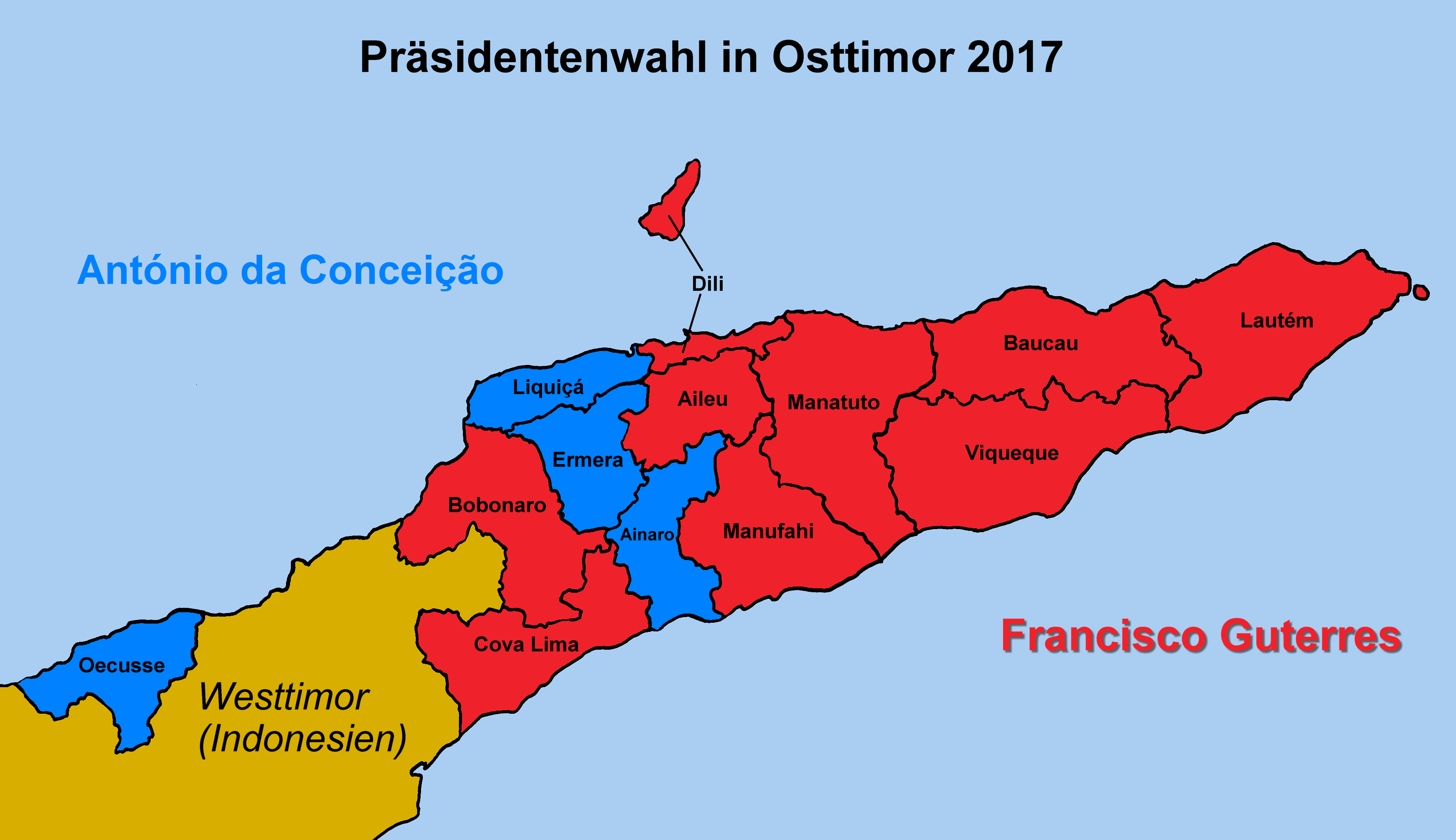 Results of president elections in East Timor 2017. Strongest candidat in each municipality.